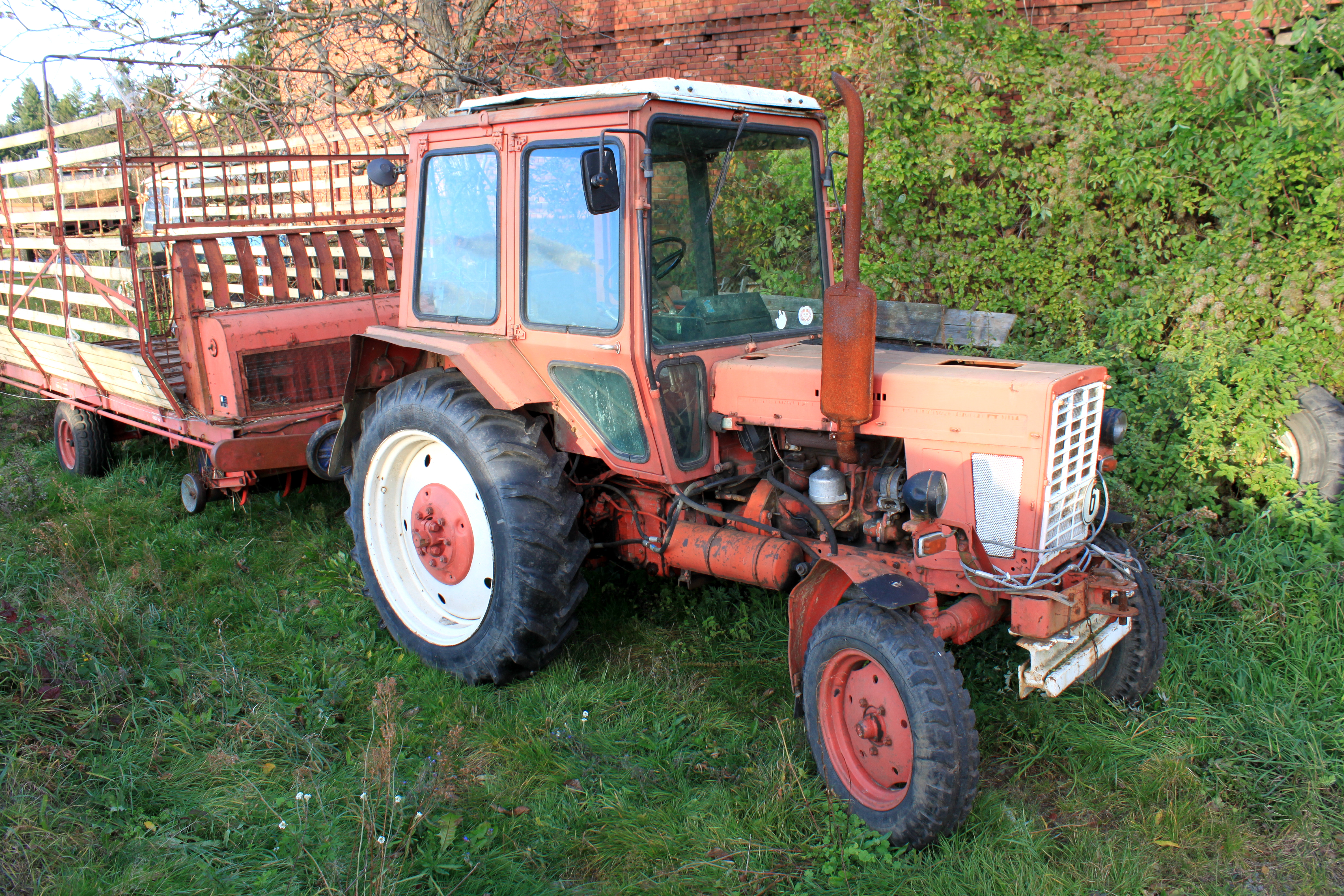 "MTZ-80 Belarus" tractor with a Fella Ladup 4t loader wagon in Herzberg/Elster, Germany